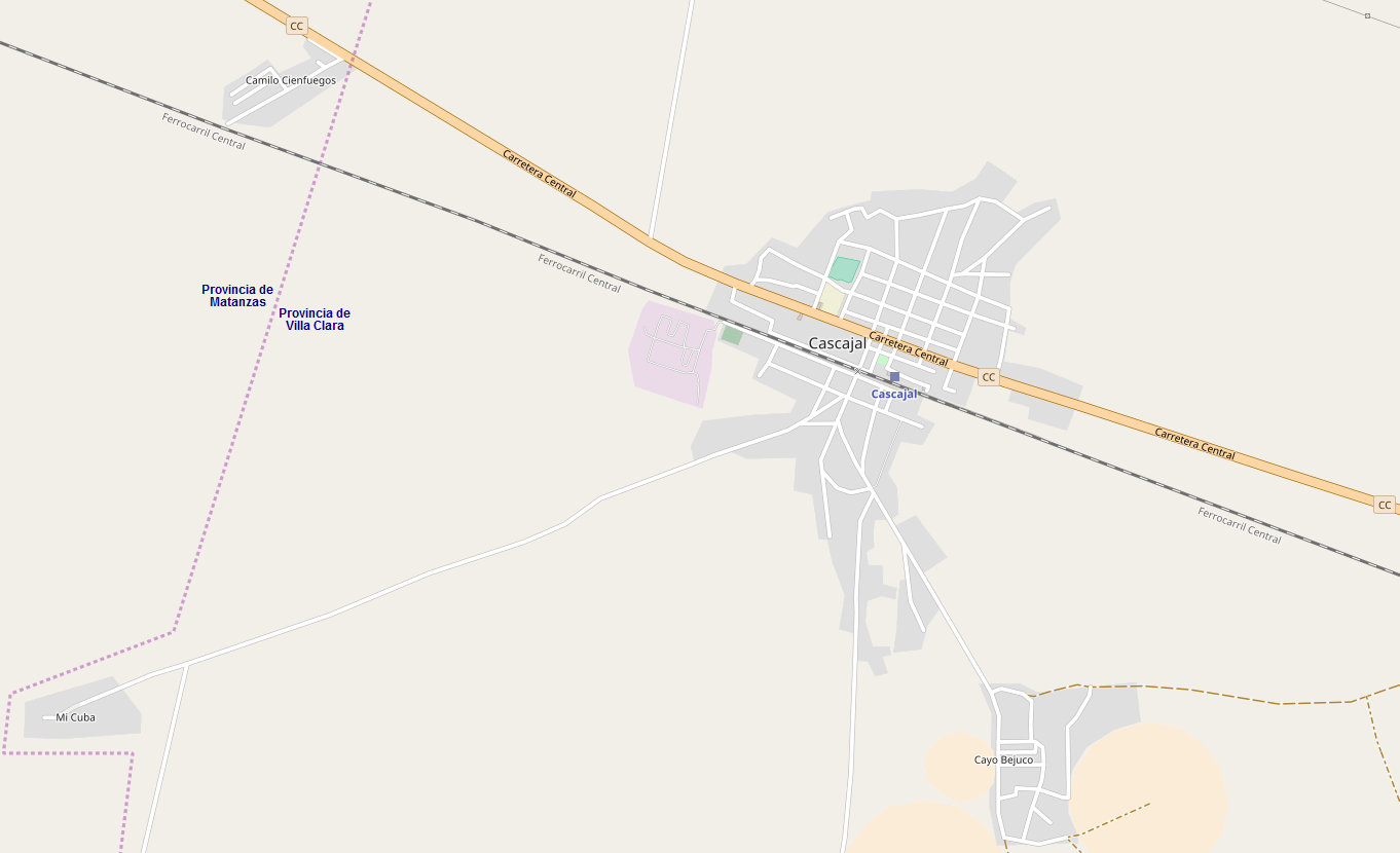 This map may be incomplete, and may contain errors. Don't rely solely on it for navigation.